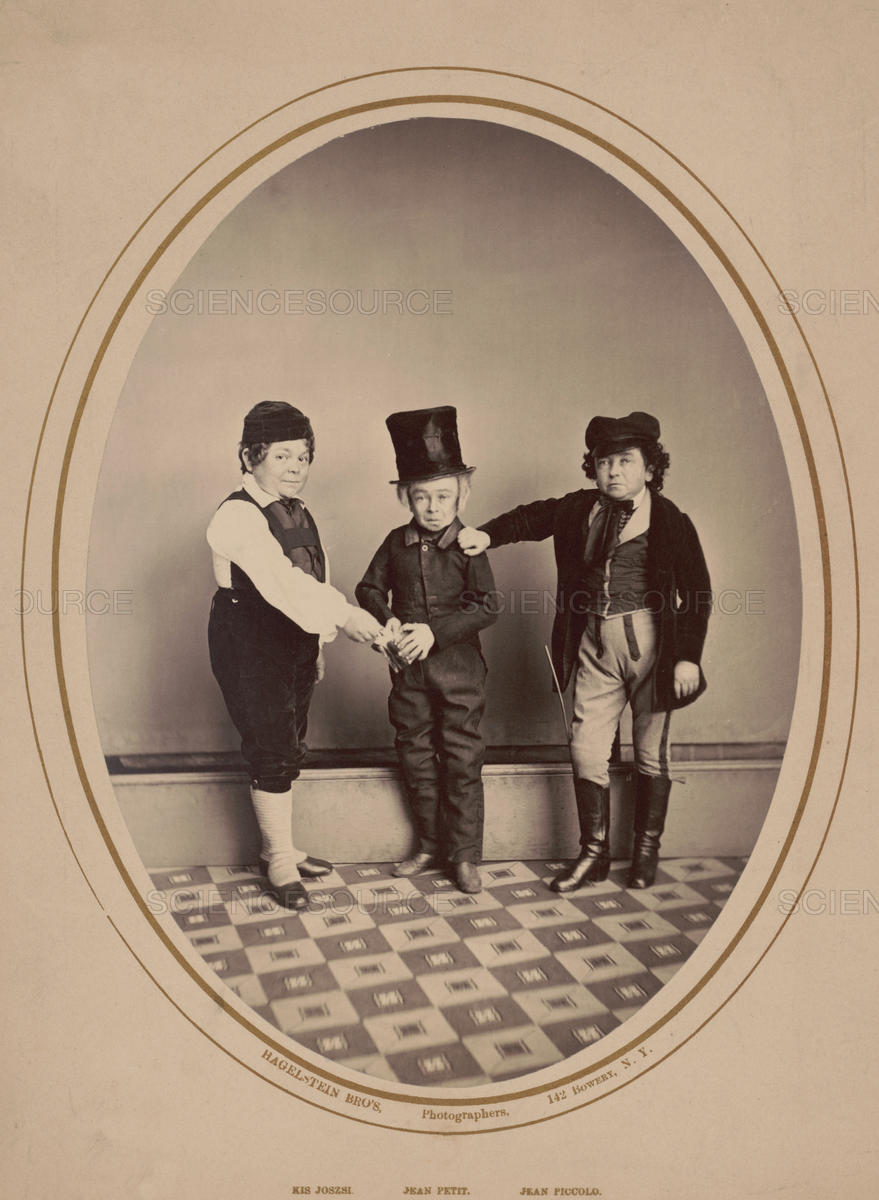 Kis Joszsi, Jean Petit, Jean Piccolo, dwarf actors; photograph by Hagelstein Bros., N.Y., 1867